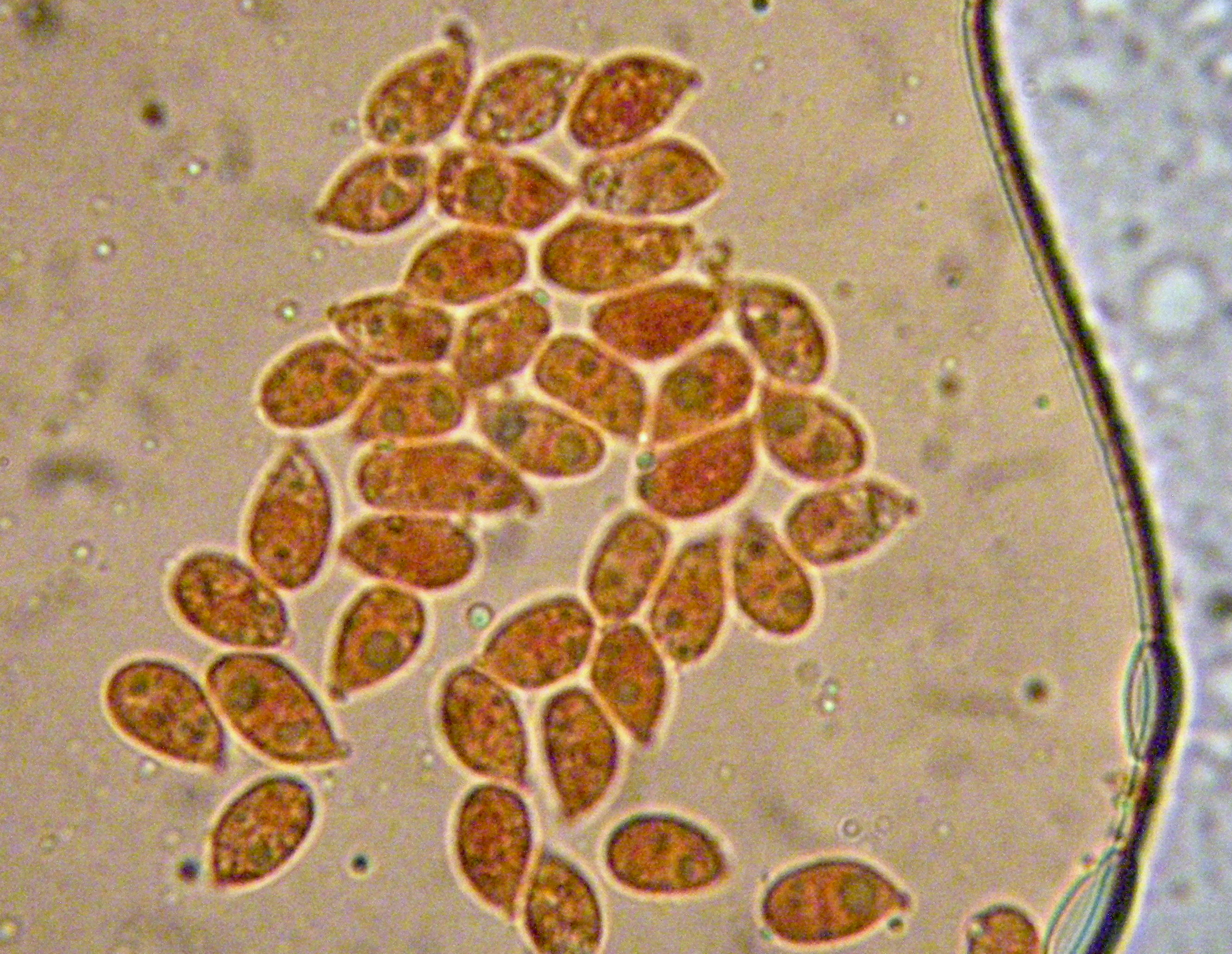 The basidiospores of the fungus Mycena leptocephala (Pers.) Gillet. The specimen from thishc the spores were obtained were collected from Tomales Bay State Park, Marin Co., California, USA.